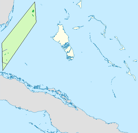 Location map of the Bahamas Equirectangular projection, N/S stretching 105 %. Geographic limits of the map: * N: 27.5° N * S: 20.7° N * W: 80.7° W * E: 70.8° W